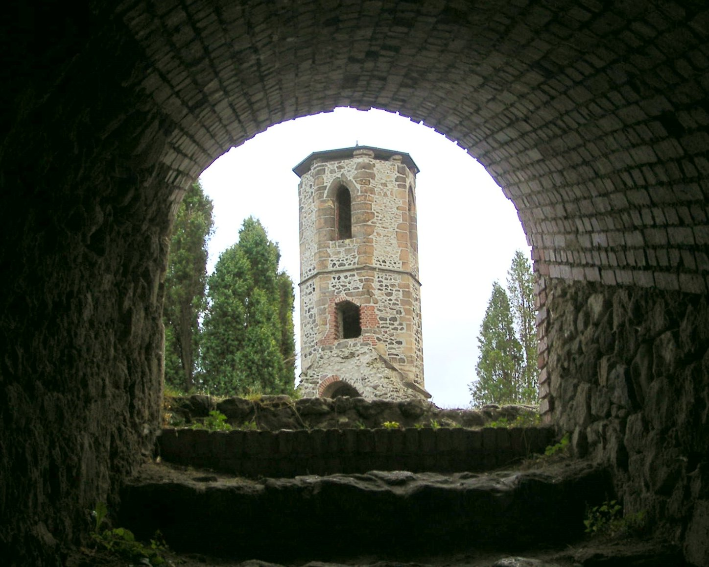 Kisnána castle ruins, Hungary